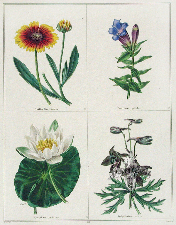 Plate from "The Botanic Garden", a journal edited and written by Benjamin Maund